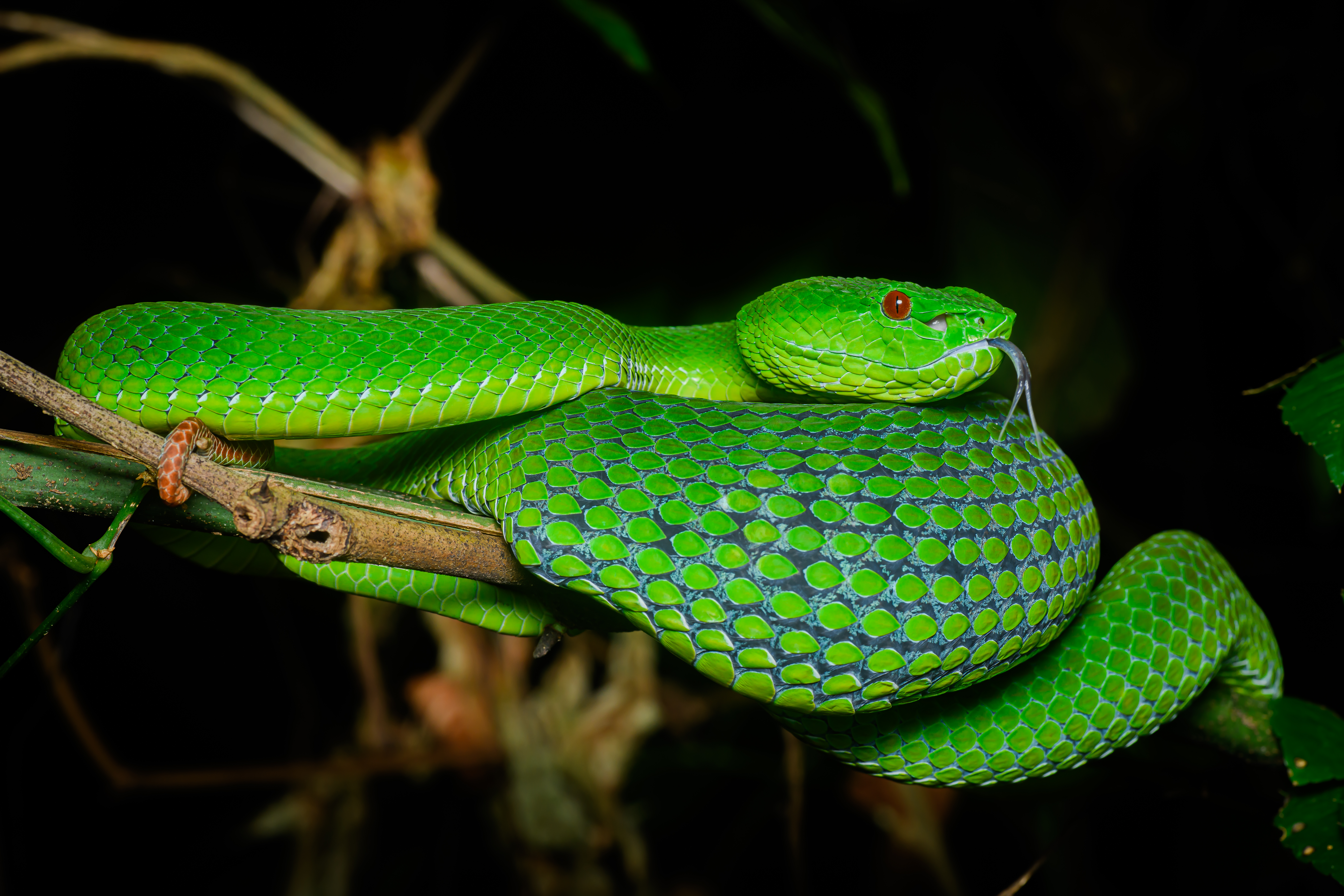 Pope's pit viper (Trimeresurus popeiorum). Doi Phu Kha National Park, Thailand.